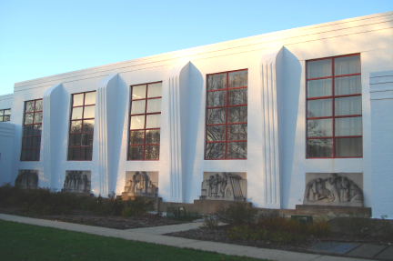 Community Center (formerly Greenbelt School), Greenbelt, Maryland